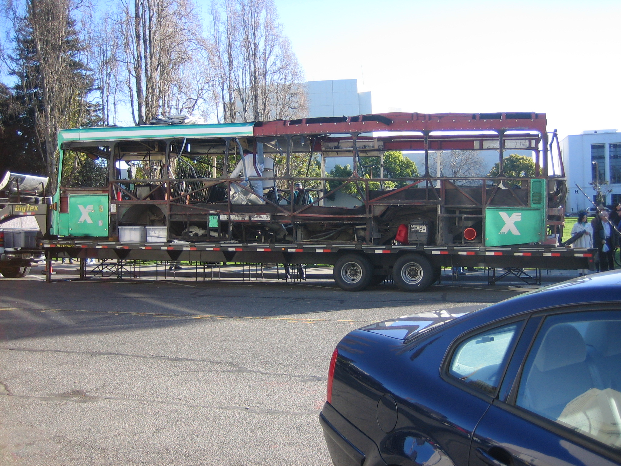 Jerusalem bus 19 suicide bombing. This is the bus struck by a suicide bomber in Israel on January 29, 2004, killing 11 and wounding 50.